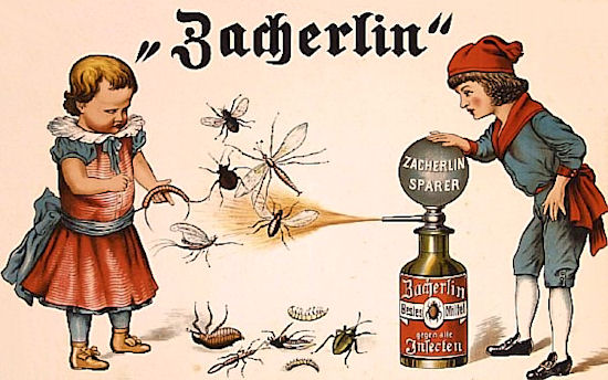 Advertising campaign for Zacherlin around 1907 Noise reduction, scratchs removal, color corrections and downsizing